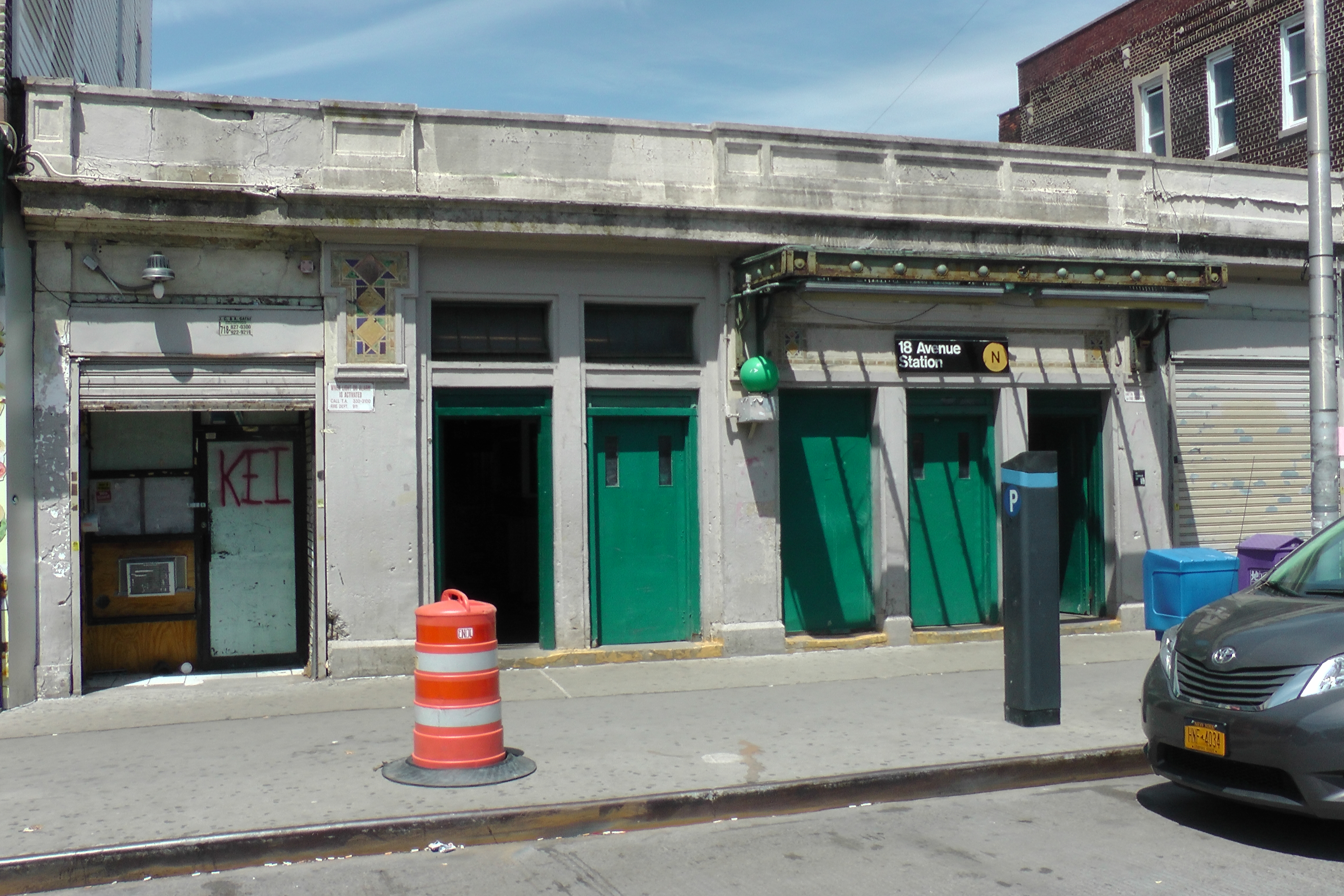 18th Avenue (BMT Sea Beach Line) station house